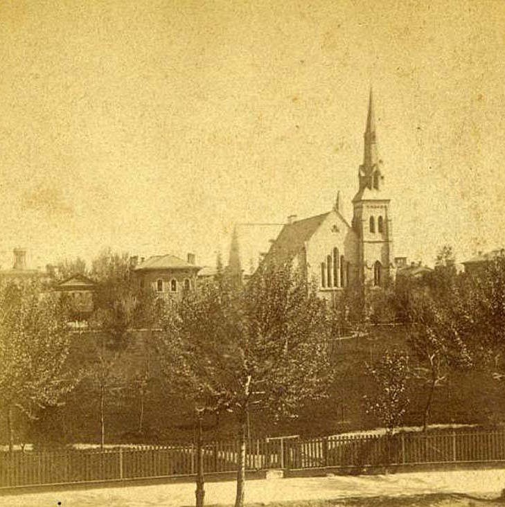 View looking north from New York Street at University Park and Second Presbyterian Church in Indianapolis, Indiana, ca. 1873